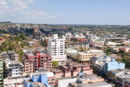 São Miguel do Oeste